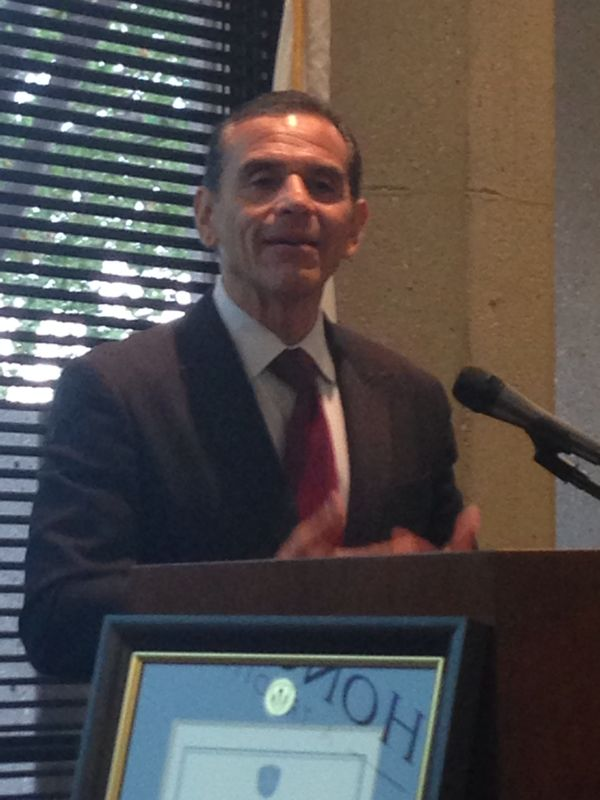 Antonio Villaraigosa giving a speech to members